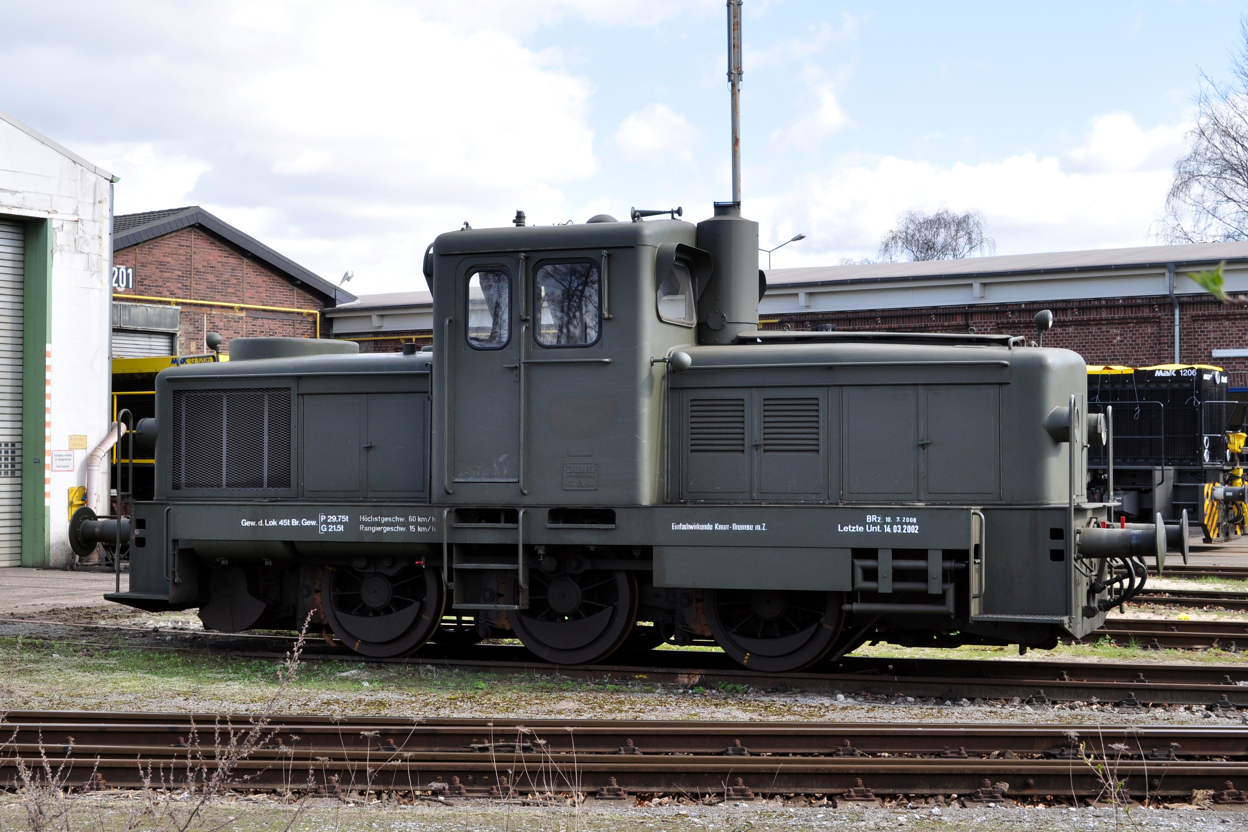 German Army Jung R 42 C in the Vossloh-Service-Center Moers